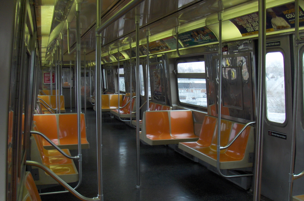 The interior of an empty R68 D train.